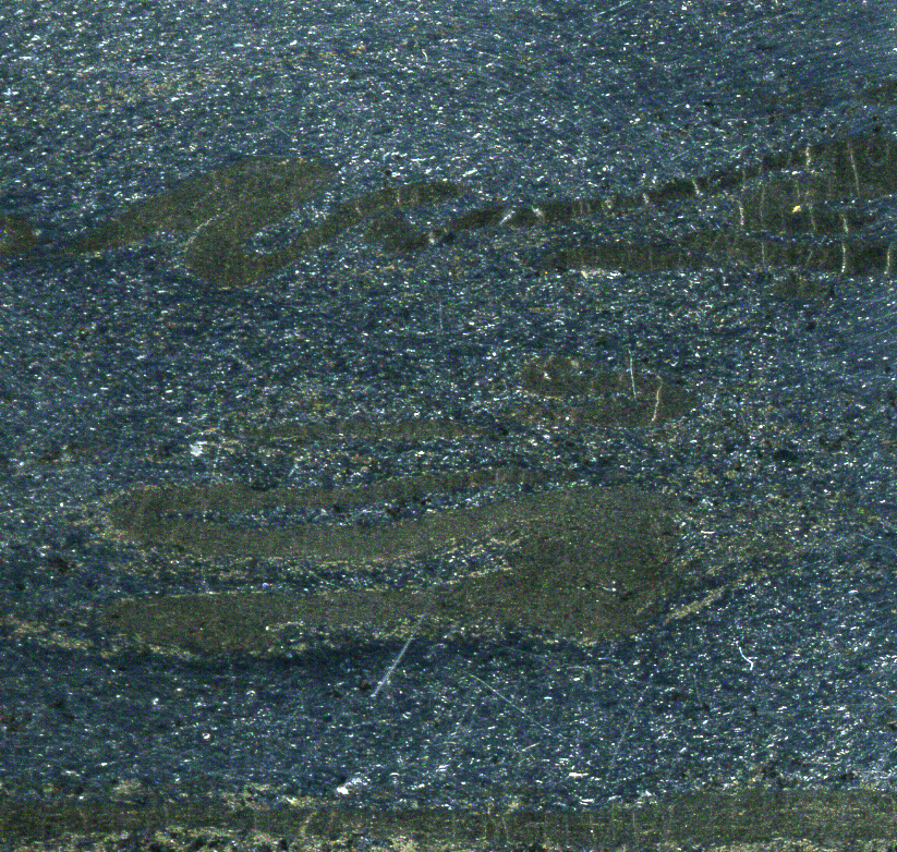 Banded massive sulfide (SEDEX silver-lead-zinc ore) (field of view: ~2.3 cm across) from the Sullivan Deposit with contorted bedding from soft-sediment slumping. Very dark gray = argentiferous galena (Pb,Ag)S Dark grayish brown bands = sphalerite (ZnS) Dull brassy wisps = pyrrhotite (Fe1-xS) British Columbia’s Sullivan Mine targeted a massive sulfide deposit consisting of silver, zinc, and lead ore minerals. The ore rocks have interesting contorted banding. This is an unusual example of a sulfide deposit having a sedimentary origin. The Sullivan Deposit is a SEDEX deposit, which stands for sedimentary exhalative deposit. It formed by seafloor deposition of silver, zinc, and lead sulfide mineral grains “exhaled” from underwater vents somewhat akin to black smokers. At the Sullivan Deposit, SEDEX deposition occurred in the collapsed crater of a mud volcano formed by emplacement of regional gabbroic sills into wet, unconsolidated, seafloor sediments that were filling a continental rift basin - a bit of a complex geologic origin. The folded and contorted bedding seen in the sulfide layers formed by soft-sediment slumping. Stratigraphy & Age: lower member-middle member boundary of the Aldridge Formation (a turbidite-sill succession), Mesoproterozoic, 1470 Ma. Locality: Sullivan Mine, between Mark Creek and Sullivan Hills, just north-northwest of Kimberley, East Kootenay District, Belt-Purcell Intracratonic Rift, southeastern British Columbia, southwestern Canada (49° 42’ 36” North, 115° 59’ 58” West). Info. mostly synthesized from: Lydon, J.W. 2004. Genetic models for Sullivan and other SEDEX deposits. pp. 149-190 in Sediment-Hosted Lead-Zinc Sulphide Deposits, Attributes and Models of Some Major Deposits in India, Australia and Canada. Narosa Publishing House. New Delhi.